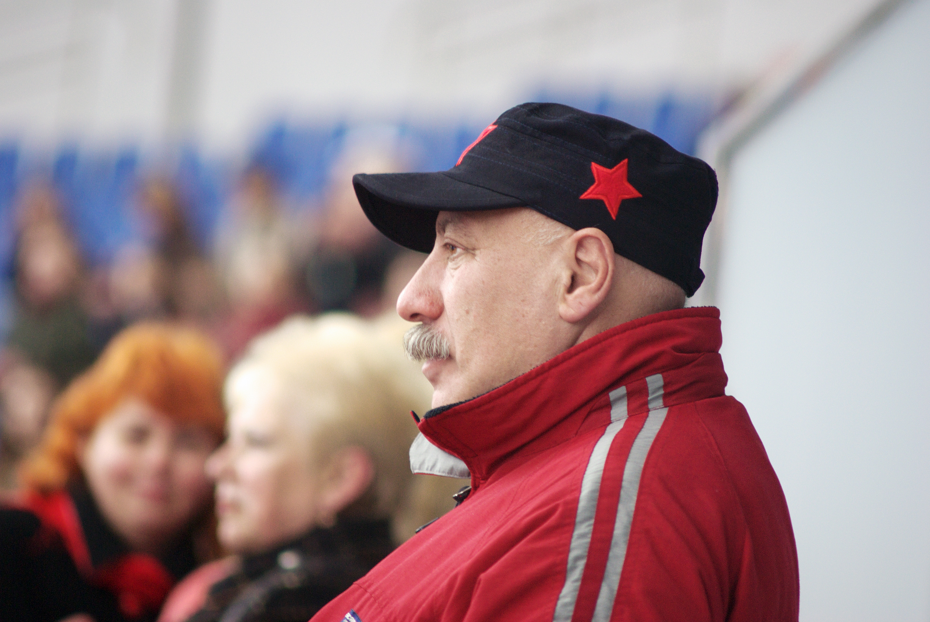 Rodion Bass